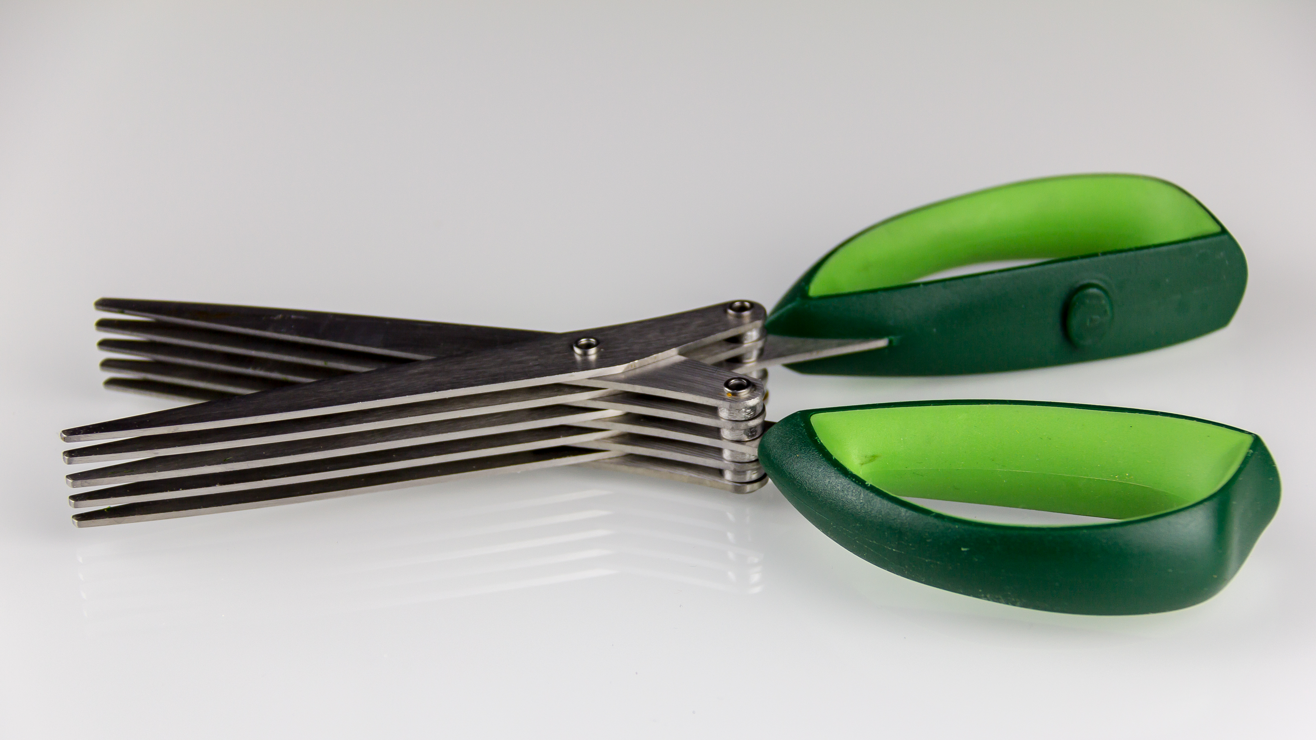 Kitchen scissor for herbs